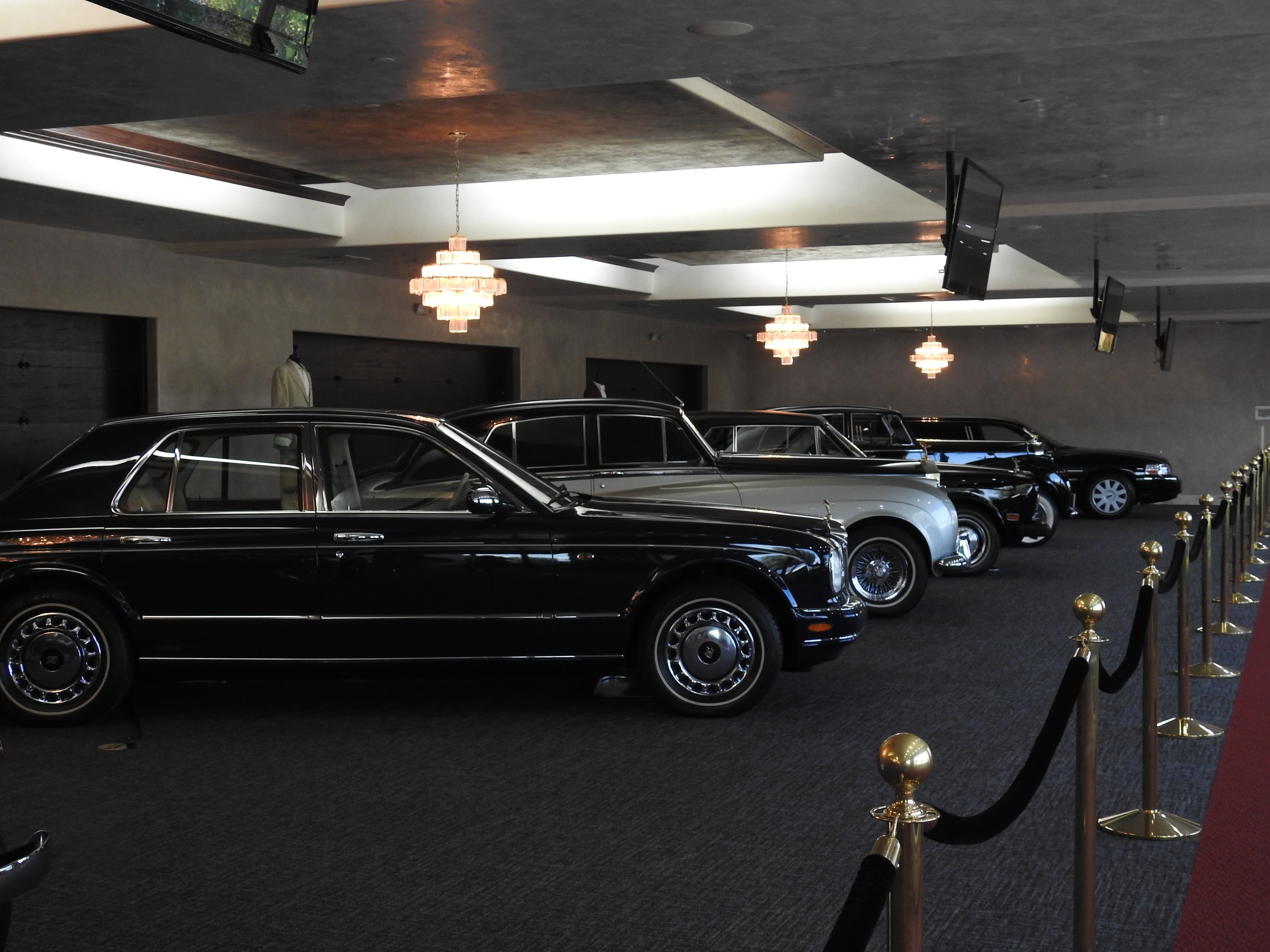 Wayne Newton's automobile collection at his Casa de Shenandoah estate in Las Vegas.